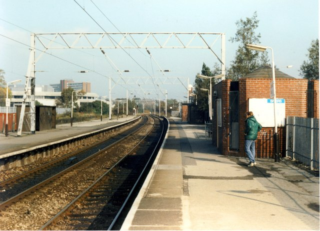 Old Trafford Metrolink station Original description: Warwick Road station Alight here for both Old Trafford theatres of dreams